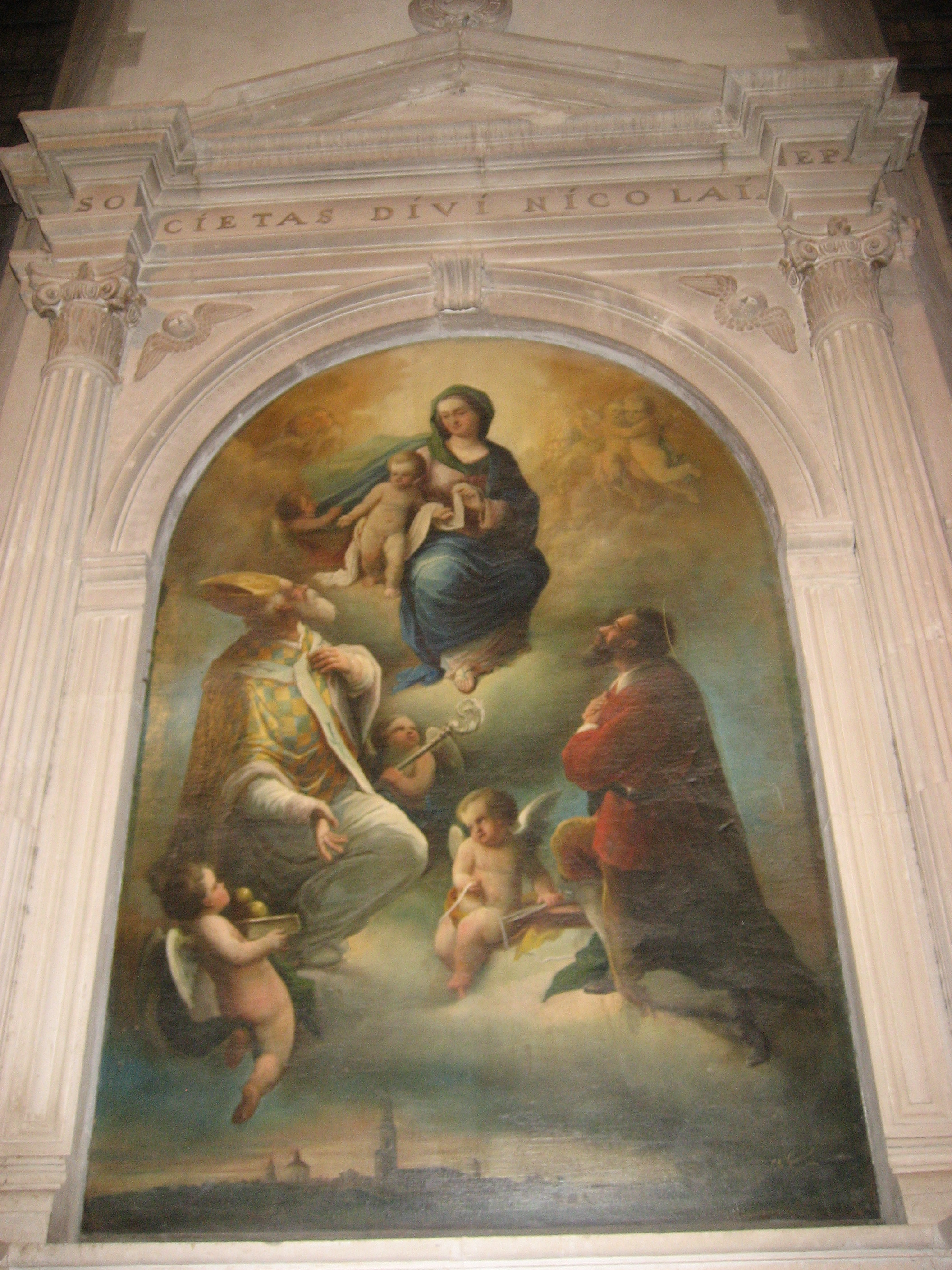 Altar of St. Nicola of the Tailors, erected by an Arabic merchant escaped by a storm in sea before the Bring of Cerrano (ancient Bring of Atri) for intercession of St. Nicola. It was straight from a brotherhood of the tailors of the city.